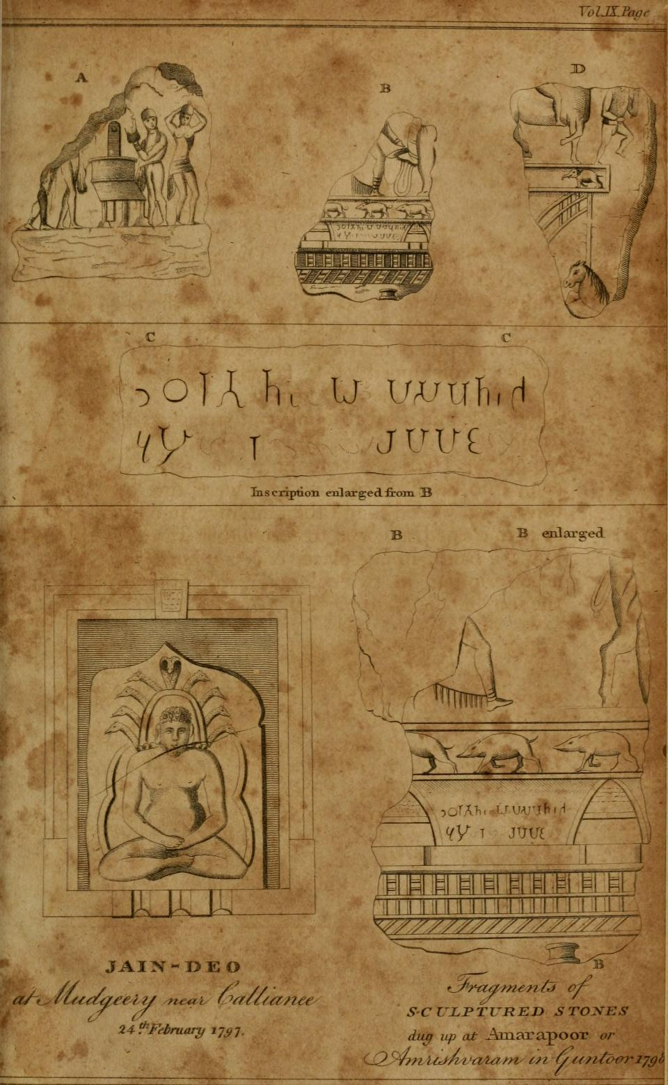 Descriptions of inscriptions at Mudgeri near Calianee and from Amaravati